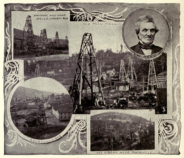 Illustration from the book Sketches in crude-oil; some accidents and incidents of the petroleum development in all parts of the globe, ... 3rd Edition. by McLaurin